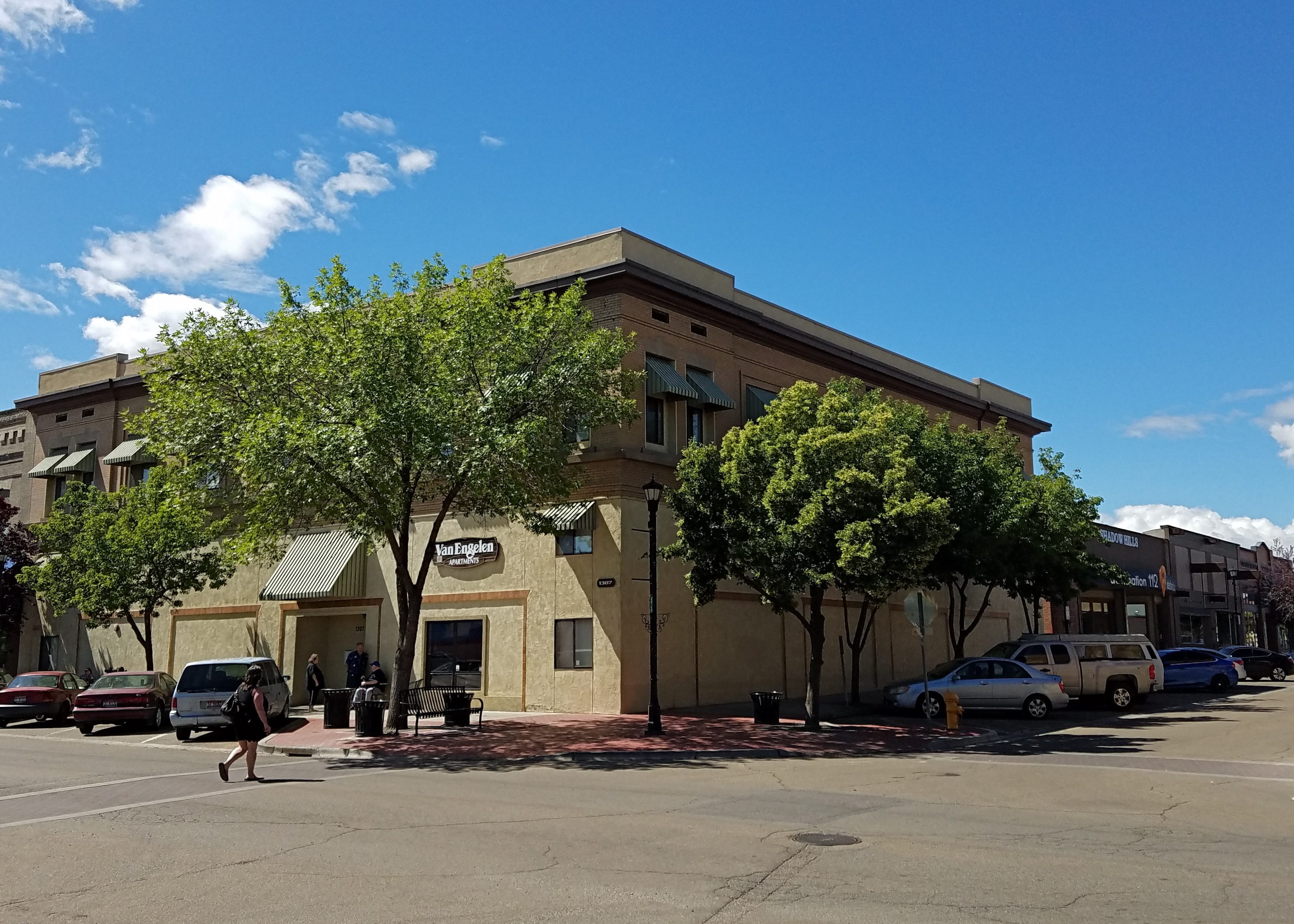 The former Nampa Department Store, NRHP 82000327, in Nampa, Idaho, repurposed as residential dwelling space. The store was designed by Tourtellotte and Hummel and constructed by G.H. Rush in 1910.